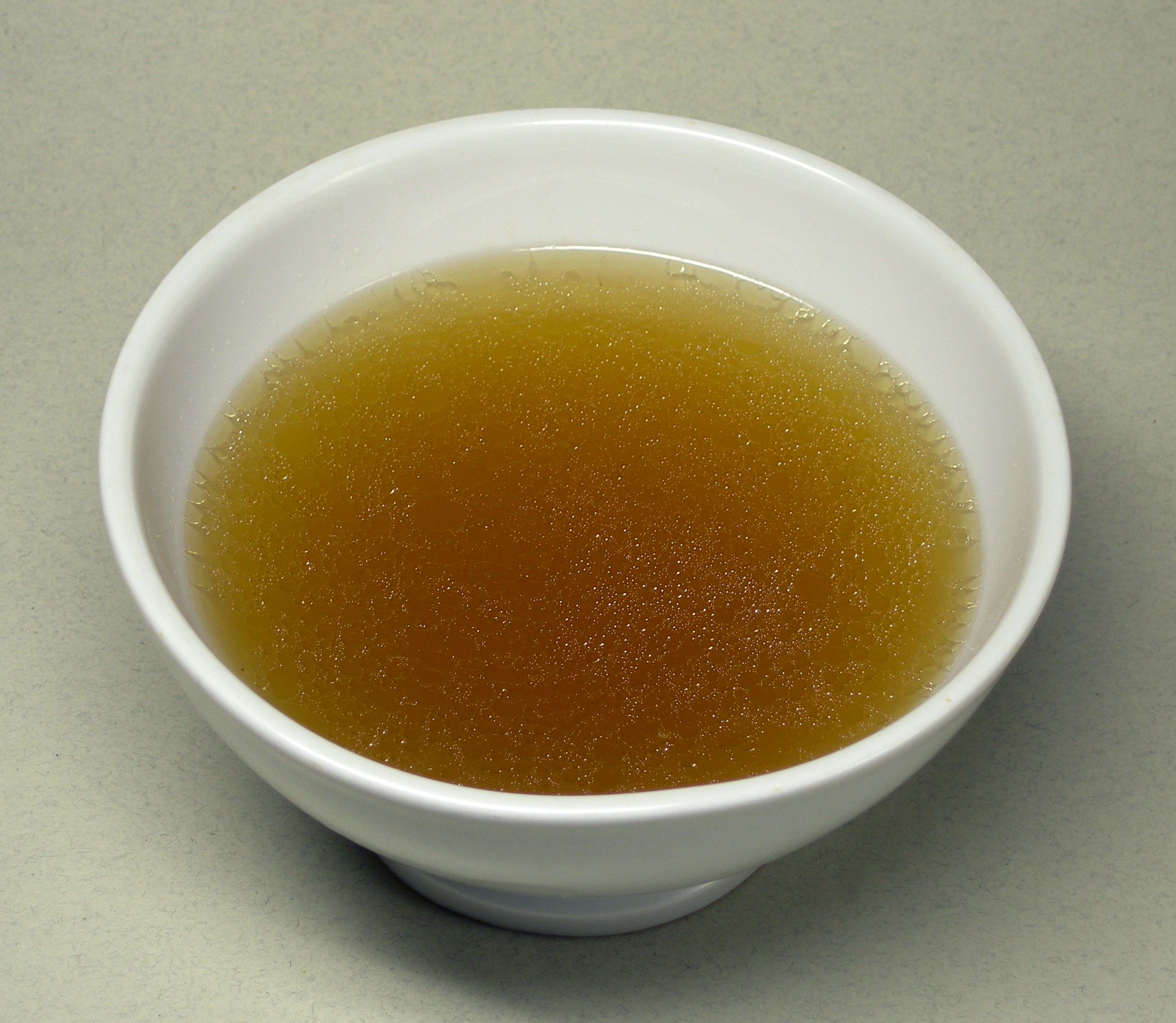 Consommé, a concentrated broth from beef, minced meat and vegetables